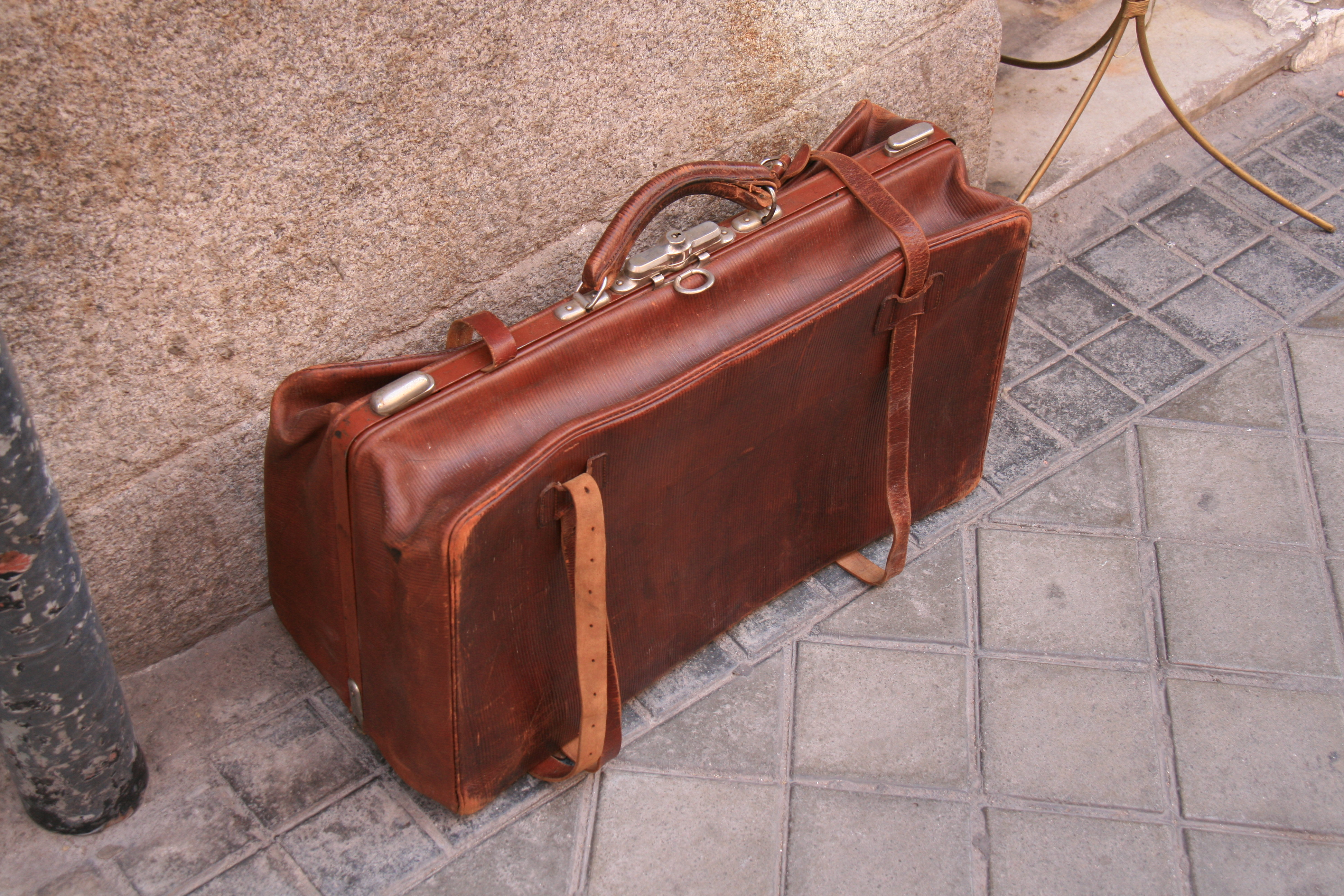 Suitcase